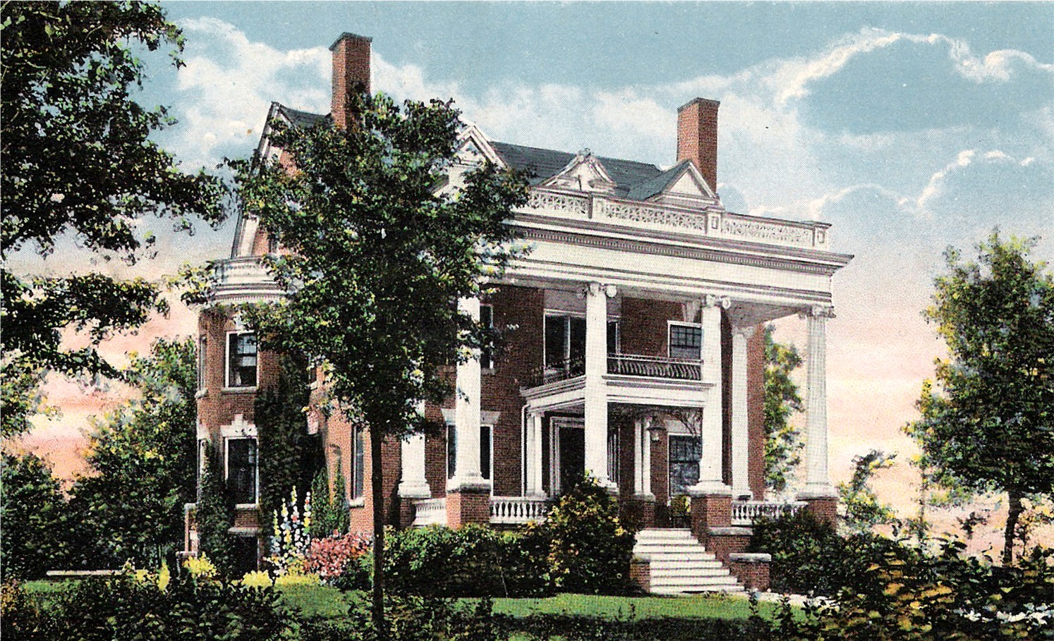 University of North Dakota President's Mansion 1919